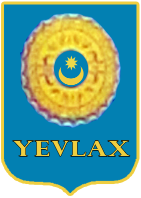 Coats of arms of Yevlakh